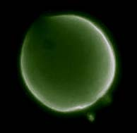 Ectoderm staining of embryo fixed at 46hrs- Zn treated. Notice the fading of florescence near the blastopore.